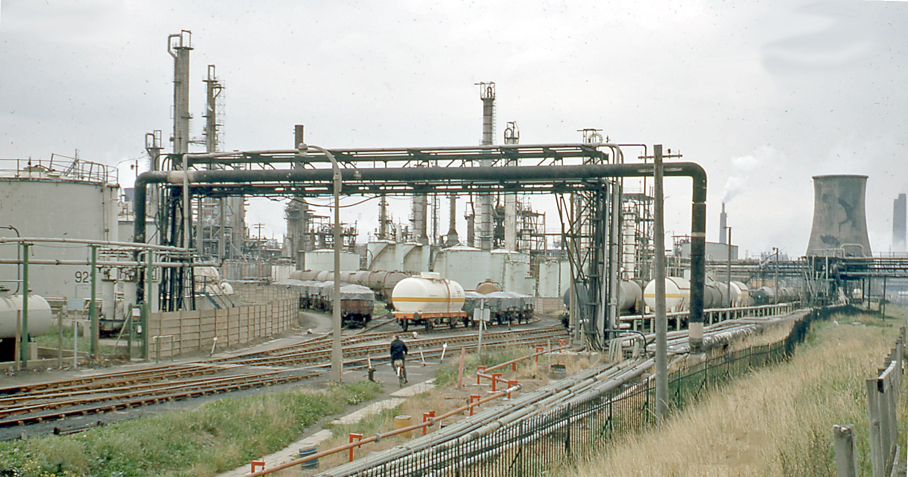 ICI Billingham, September 1970 No. 7